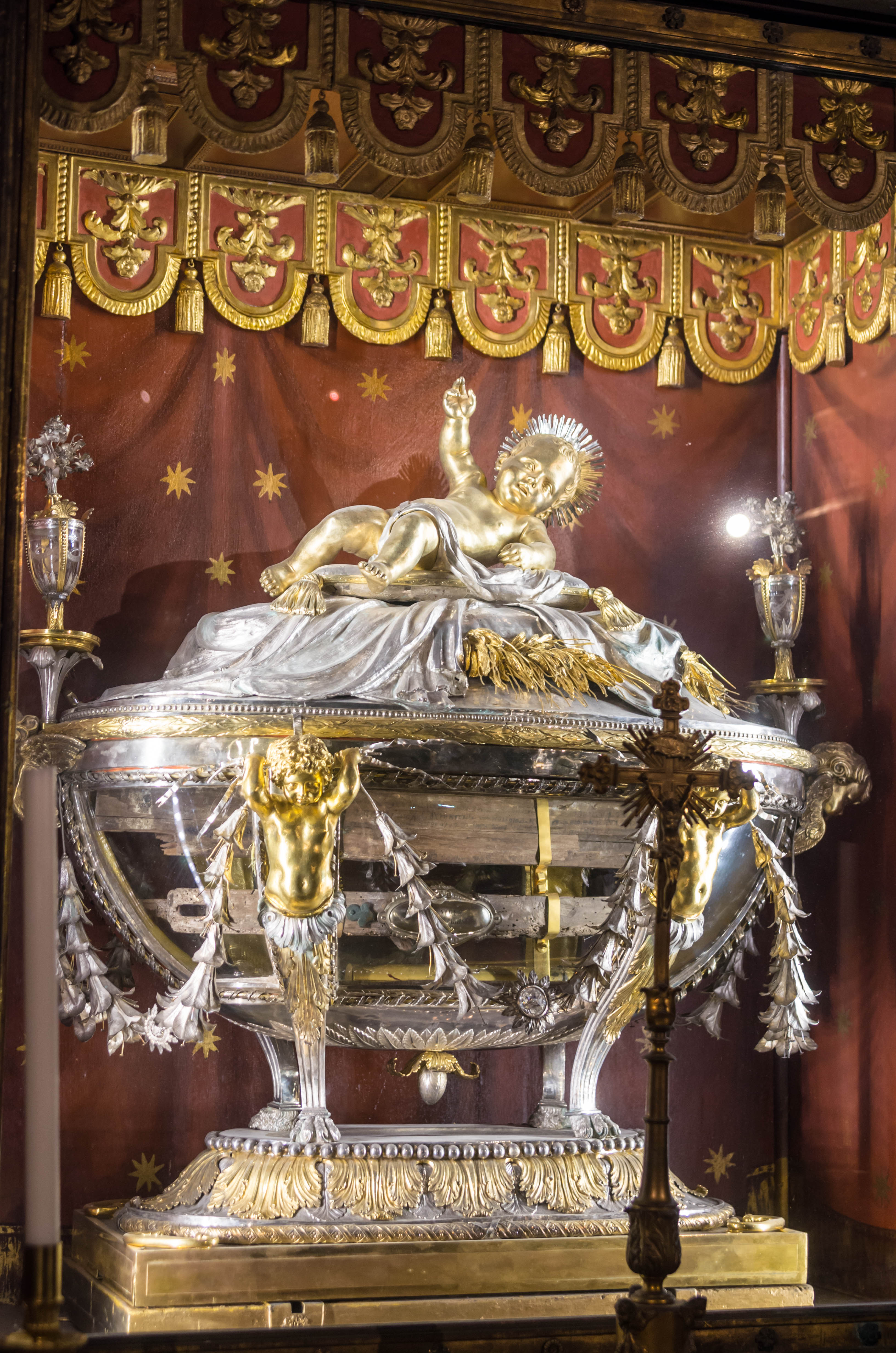 Holy Cradle